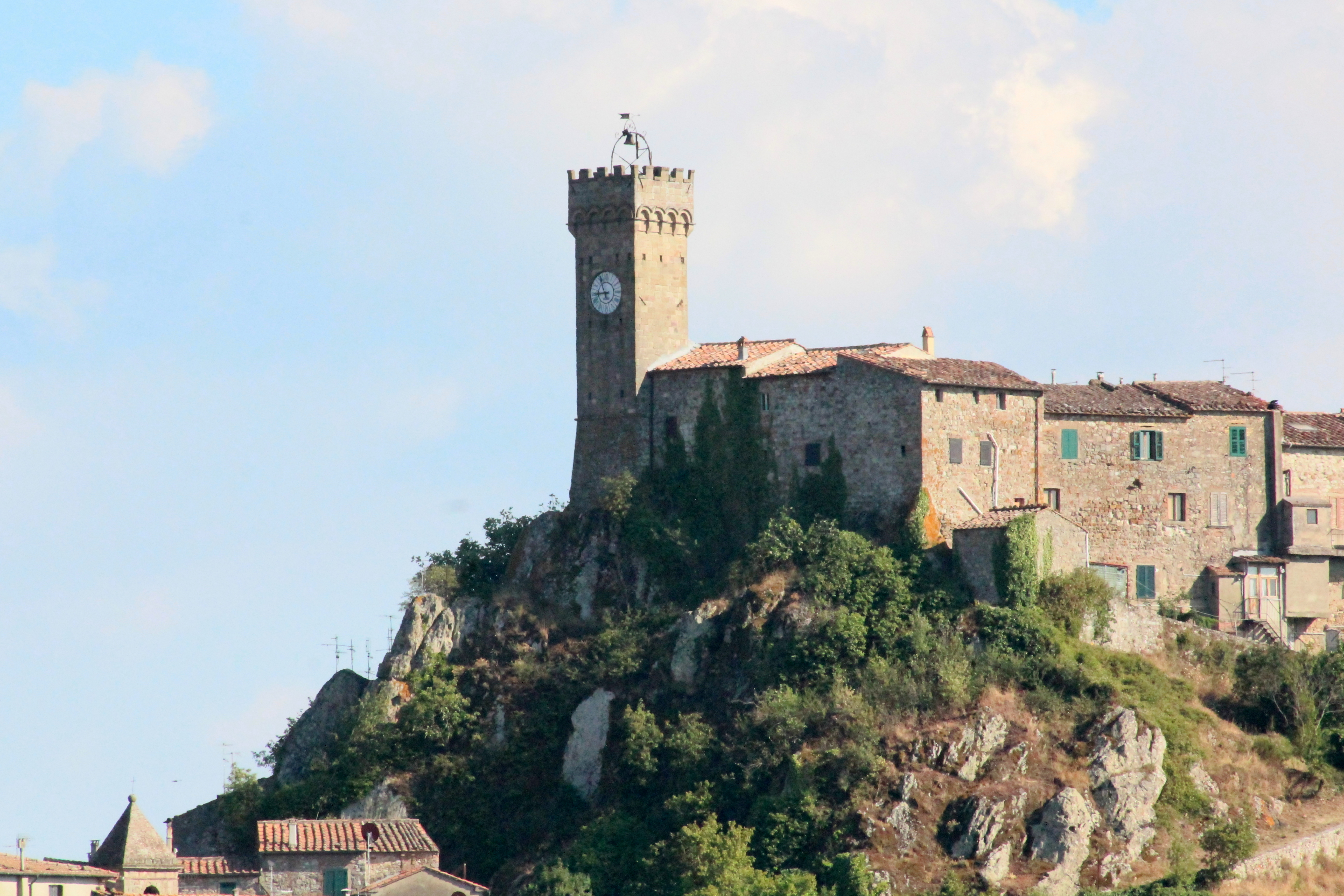 Clock Tower Torre dell’Orologio (Torre Civica), Roccatederighi, hamlet of Roccastrada, Province of Grosseto, Tuscany, Italy. Built 1911.